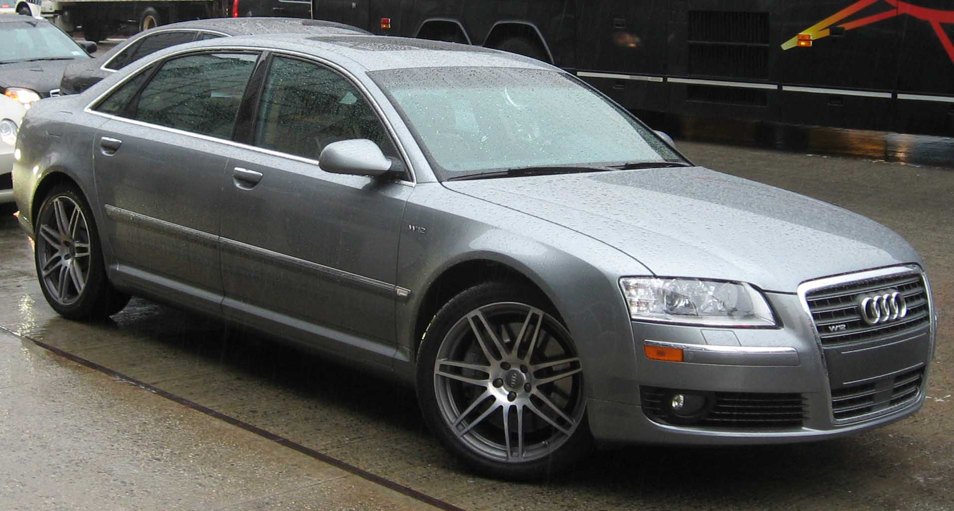 Audi A8 photographed in New York City, USA.